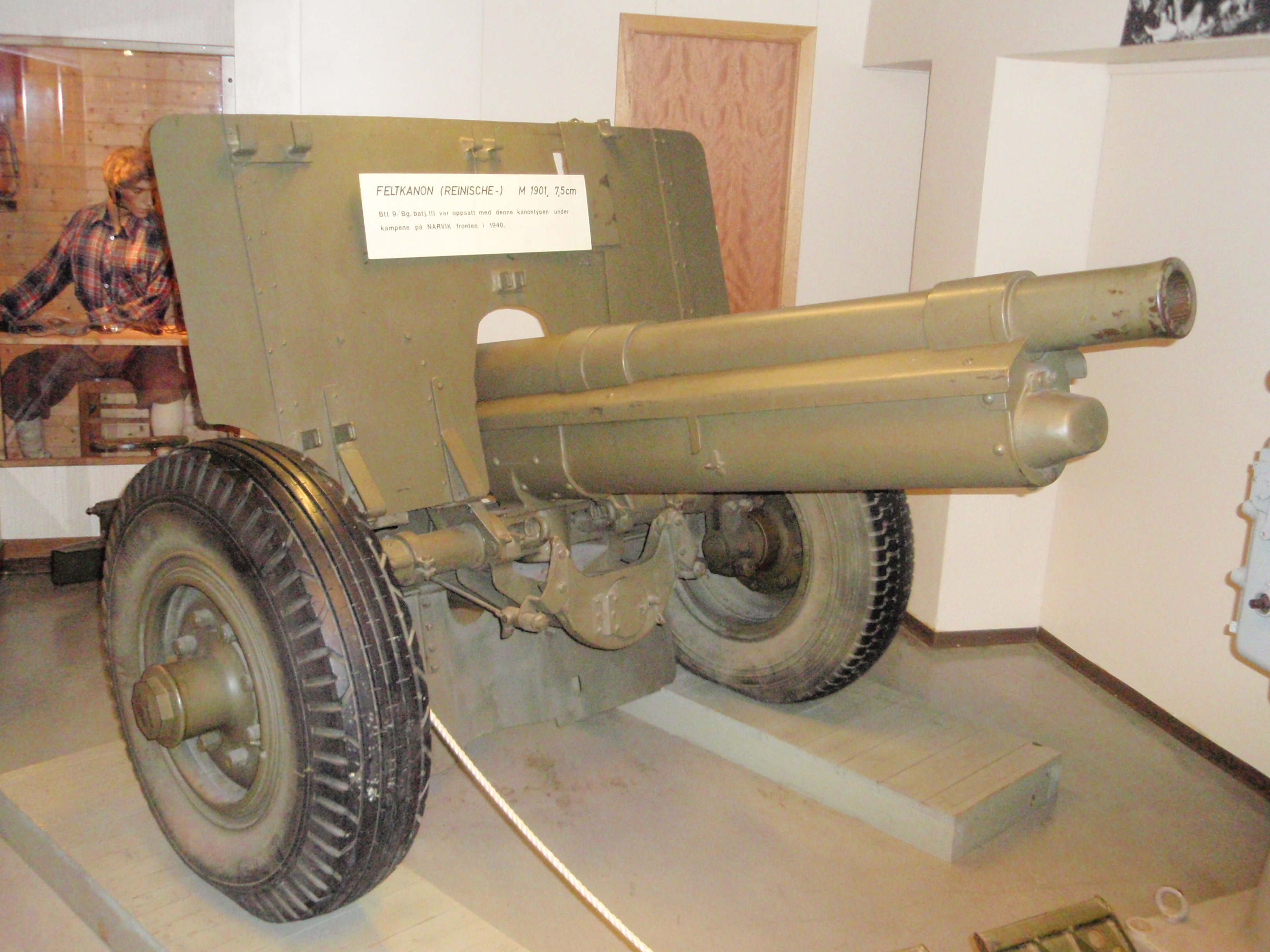 An Ehrhardt 7.5 cm Model 1901 field gun, modified for motorized transport, on display at the War Museum in Narvik.